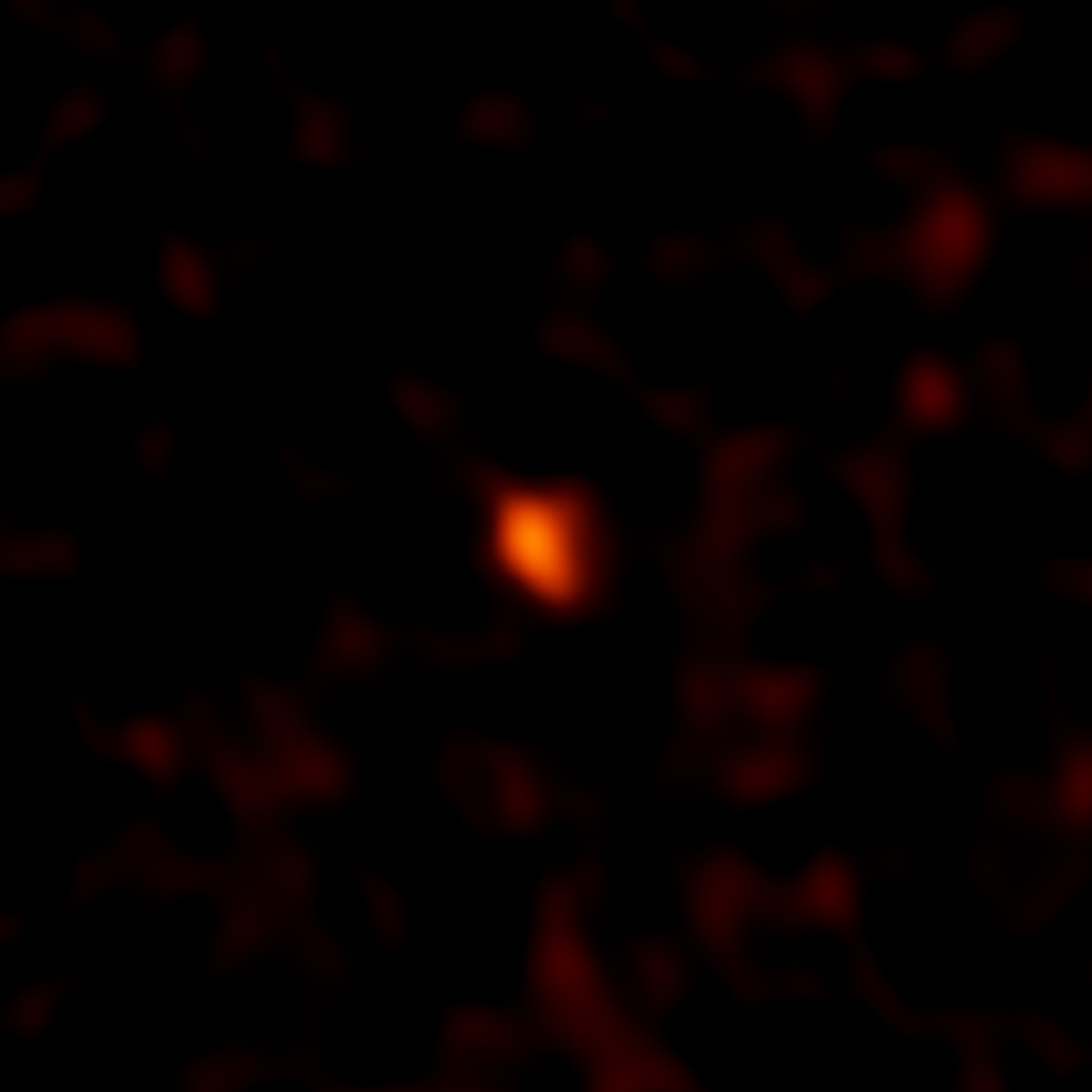 ALMA image of the faint millimeter-wavelength "glow" from the planetary body 2014 UZ224, more informally known as DeeDee. At three times the distance of Pluto from the Sun, DeeDee is the second most distant known TNO with a confirmed orbit in our solar system.